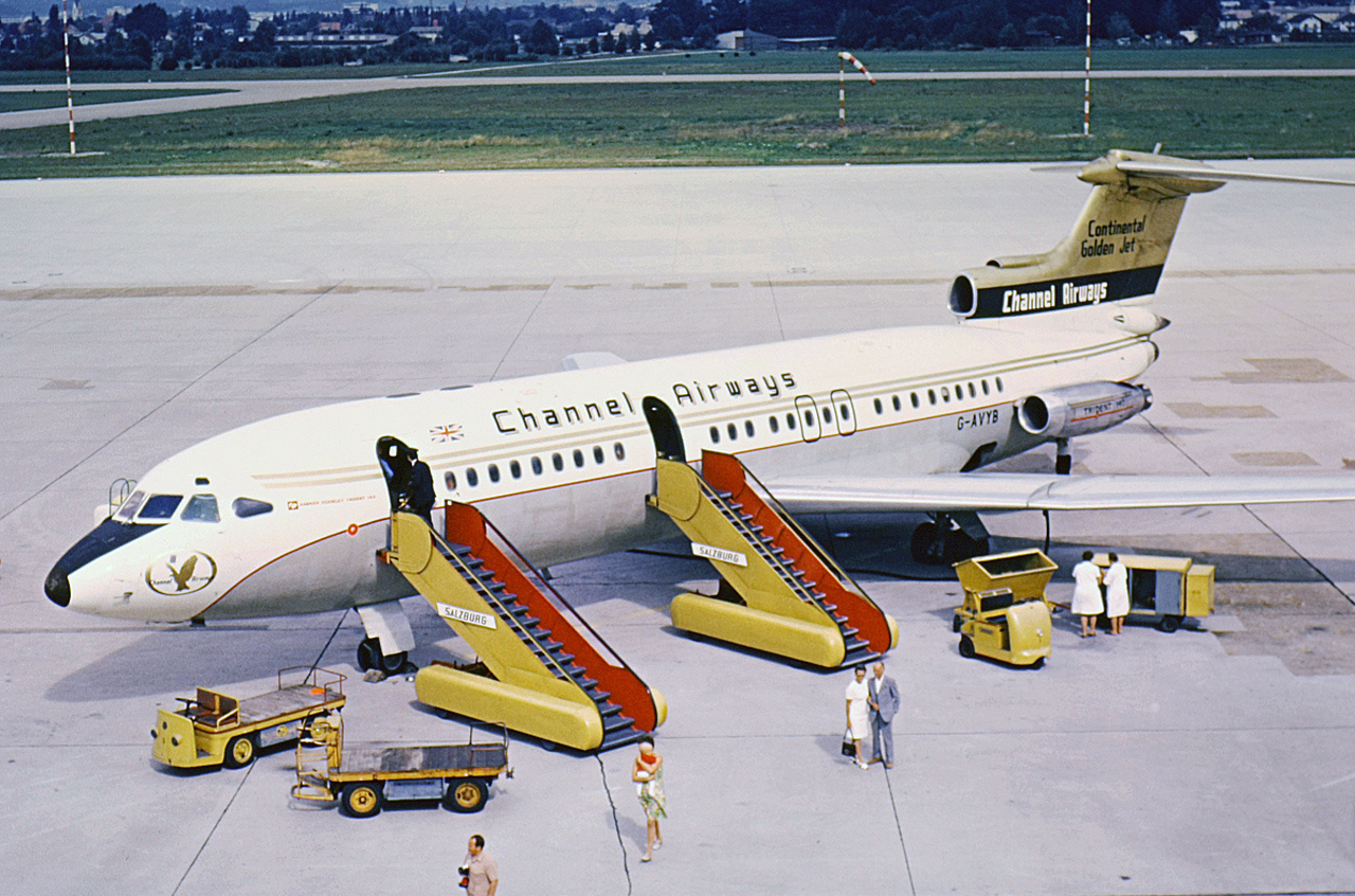 G-AVYB (cn 2136) at Salzburg - W.A. Mozart (Maxglan) (SZG / LOWS) Austria